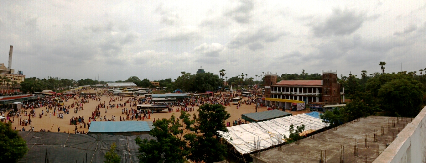 Temporary bus terminal for "Godavari maha pushkaralu" operations by AndhraPradesh road transport corporation (APSRTC) in Rajahmundry.